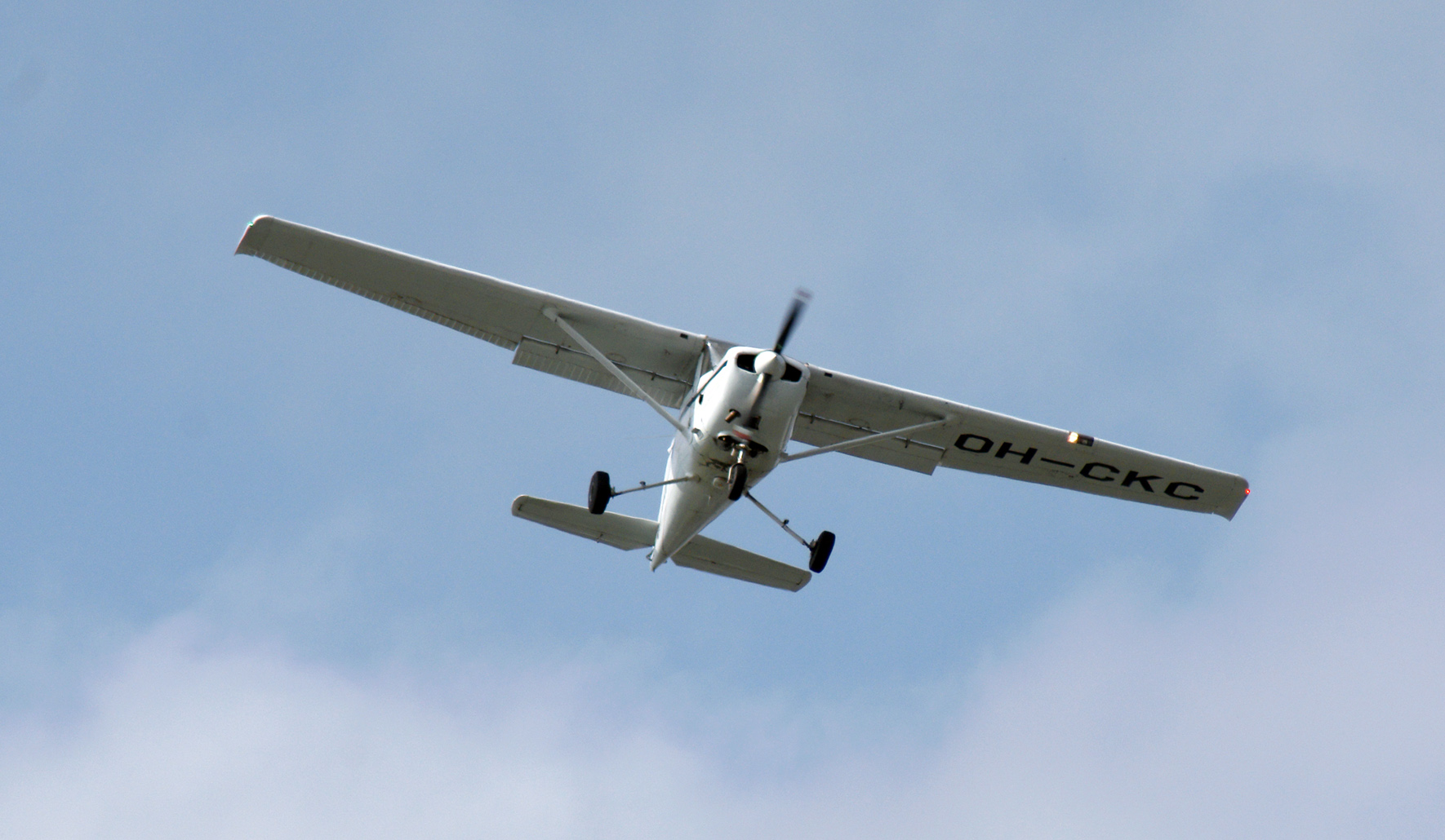 Reims-Cessna F152 Aerobat of Finnish Aviation Academy (OH-CKC) in Pori.